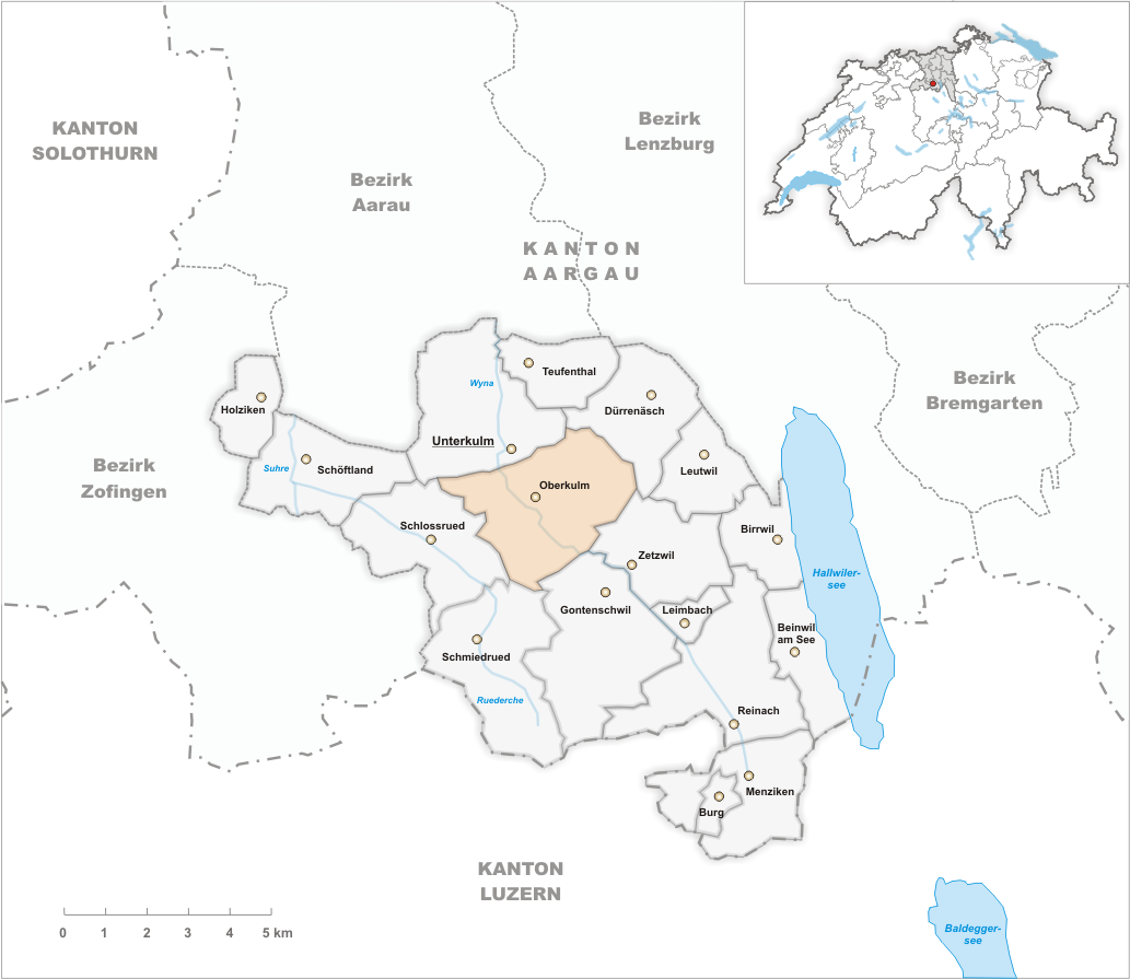 Municipality Oberkulm